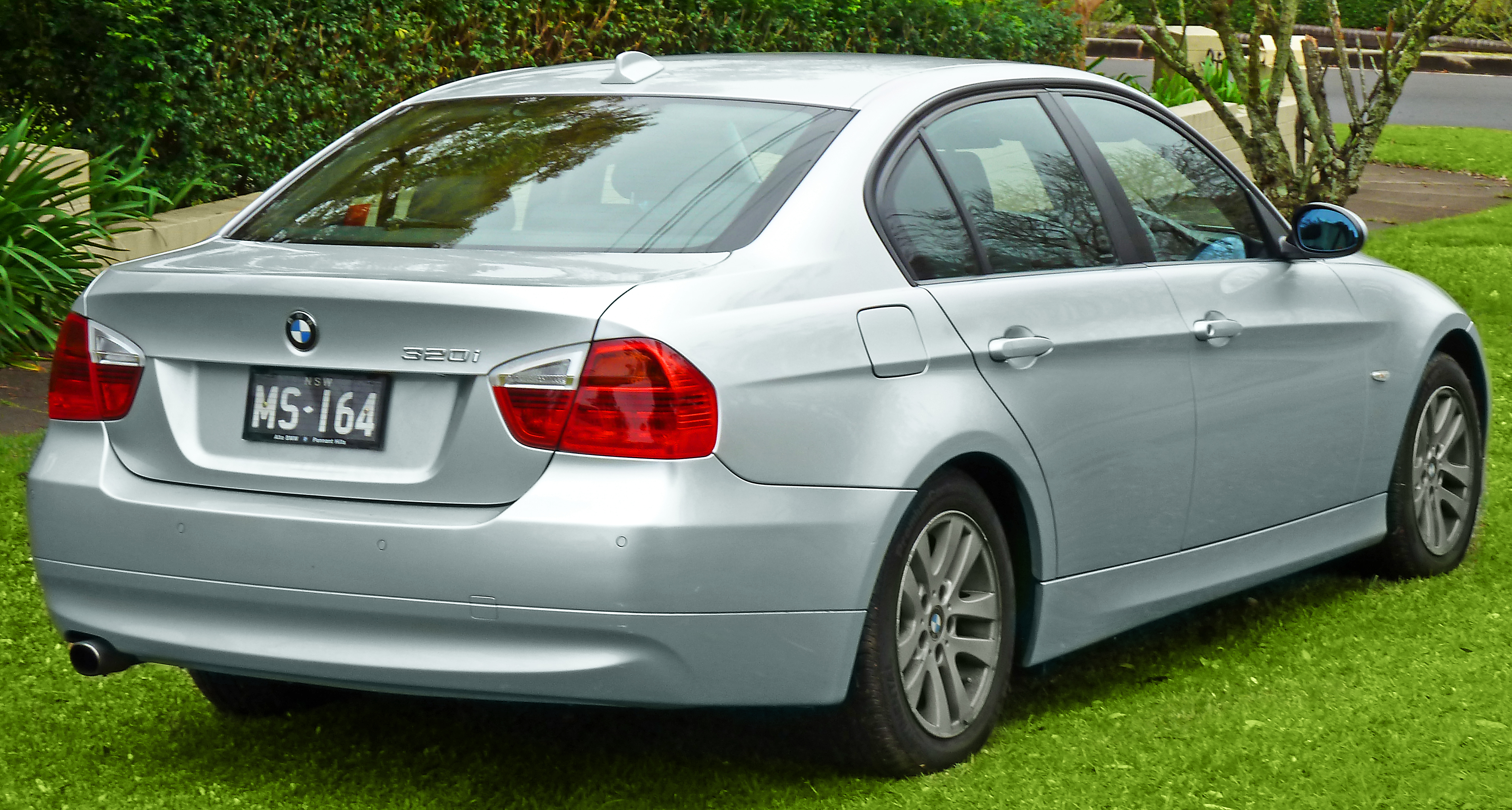 2005–2008 BMW 320i (E90) sedan. Photographed in Roseville, New South Wales, Australia.